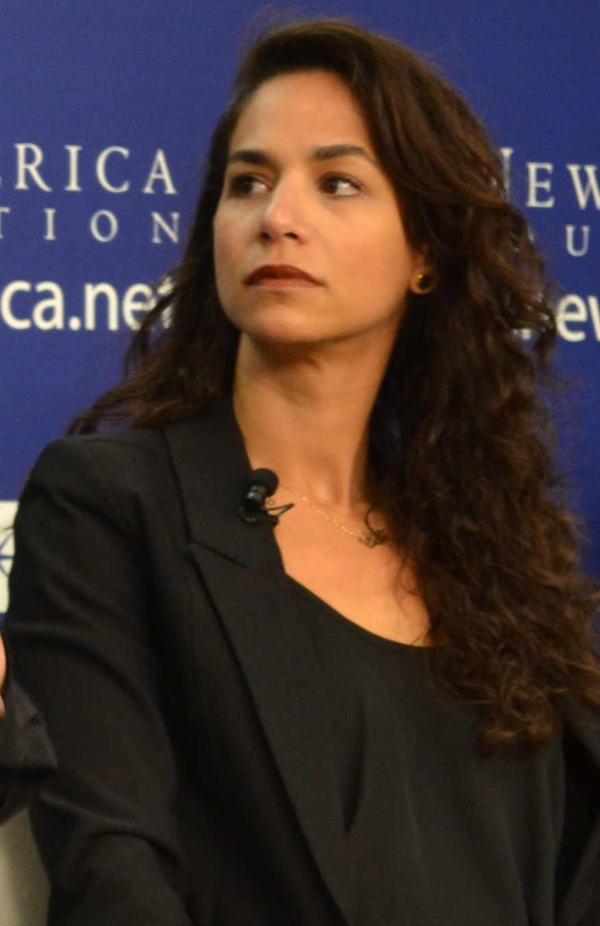 Lisa Goldman and Noura Erakat at the New America Foundation's "Israel, Gaza, and the Potential for a Diplomatic Resolution to the Violence" event